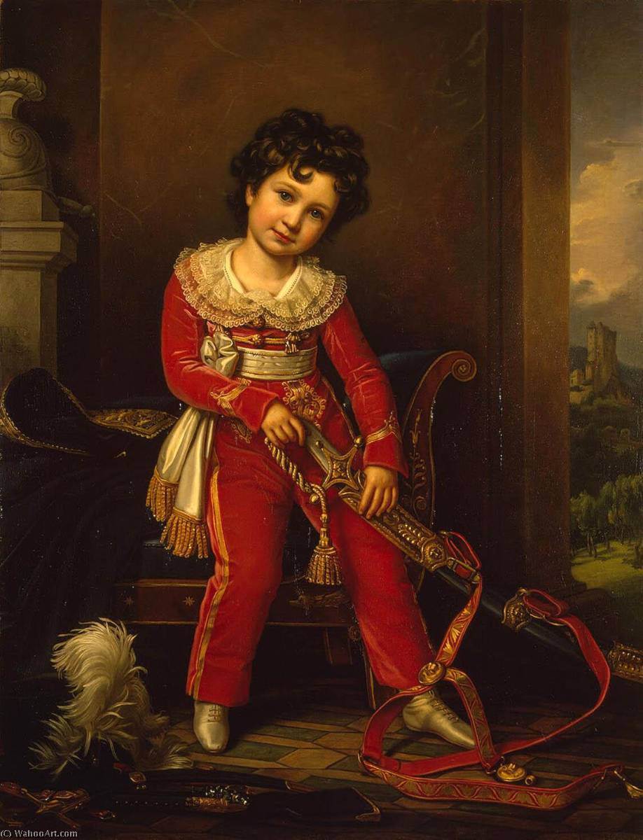 Portrait of Maximilian, Duke of Leuchtenberg